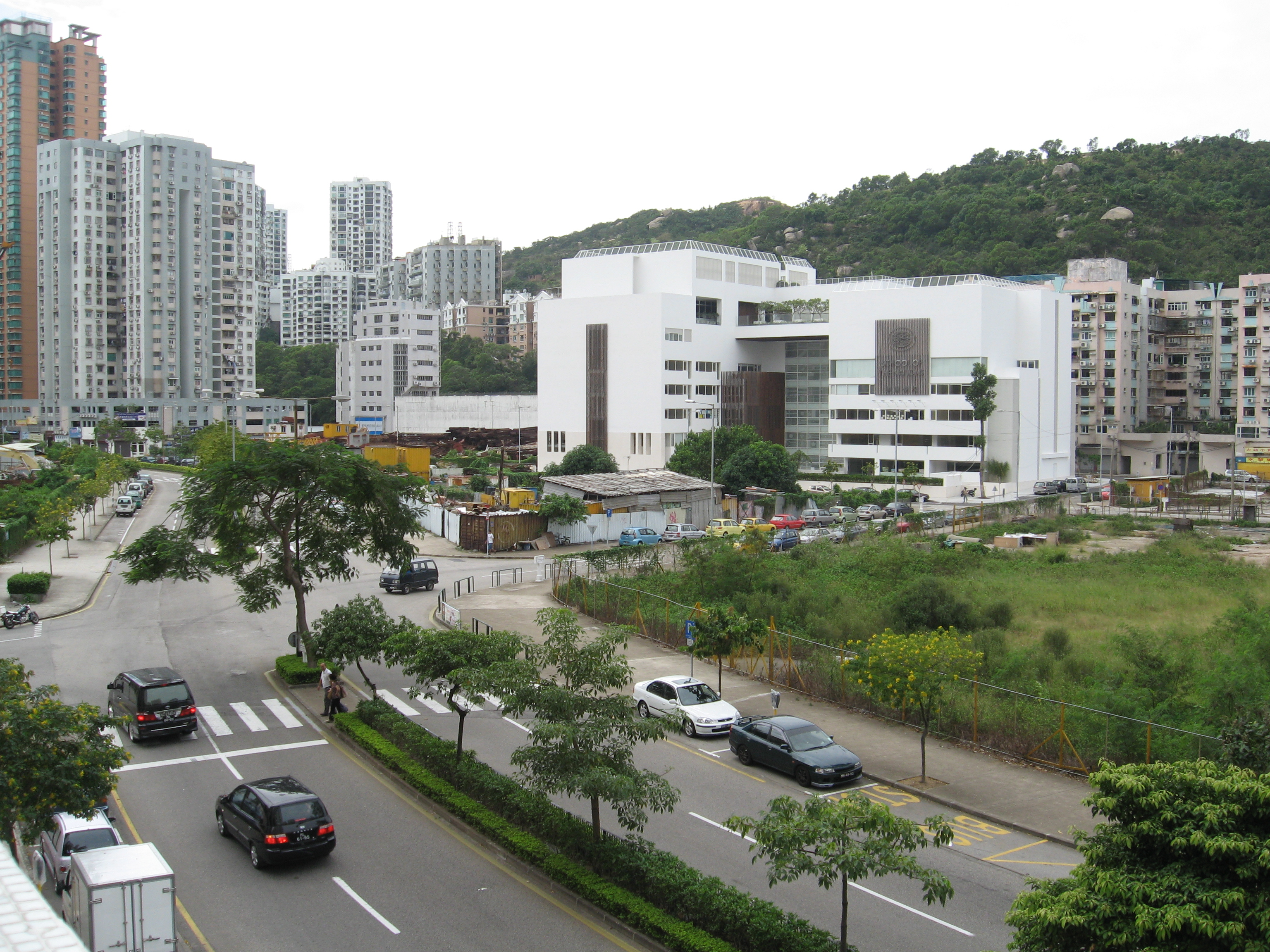 This very-wide-shot photo shows the School of the Nations building on Taipa Island in Macau (Macao), China. The building was completed in Summer 2008.